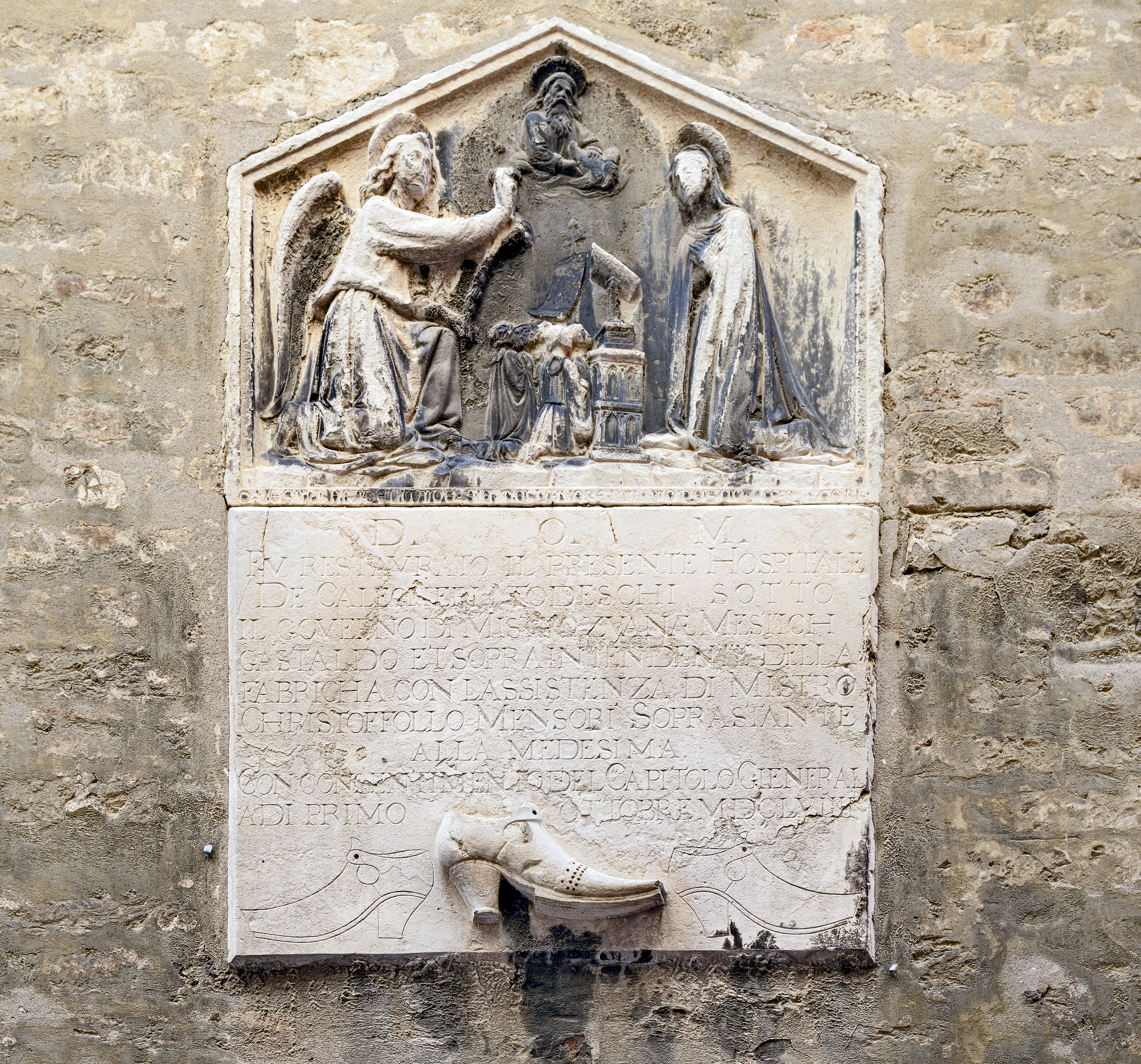 Facade of Scoleta dei calegheri (German shoemakers), at the Crosera delle Botteghe (shops crossing) Venice. The Annunciation to the Virgin.